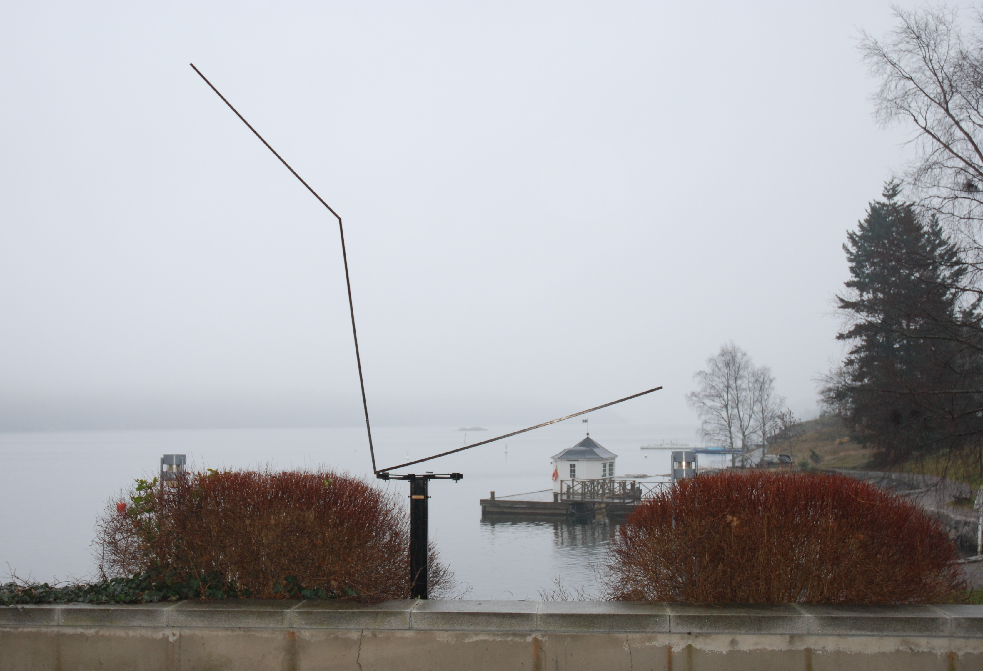 Olle Baertling´s Yzip, Saltsjöbaden, Sweden